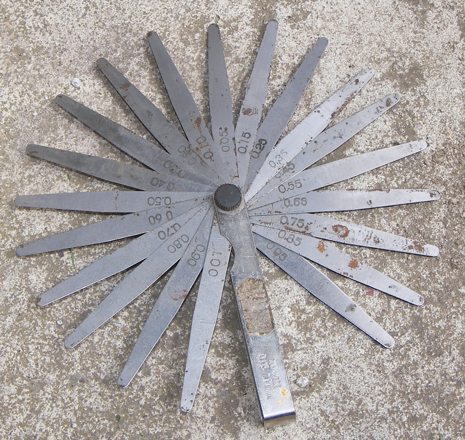 Feeler gauge:A feeler gauge is a tool used to measure gap widths.